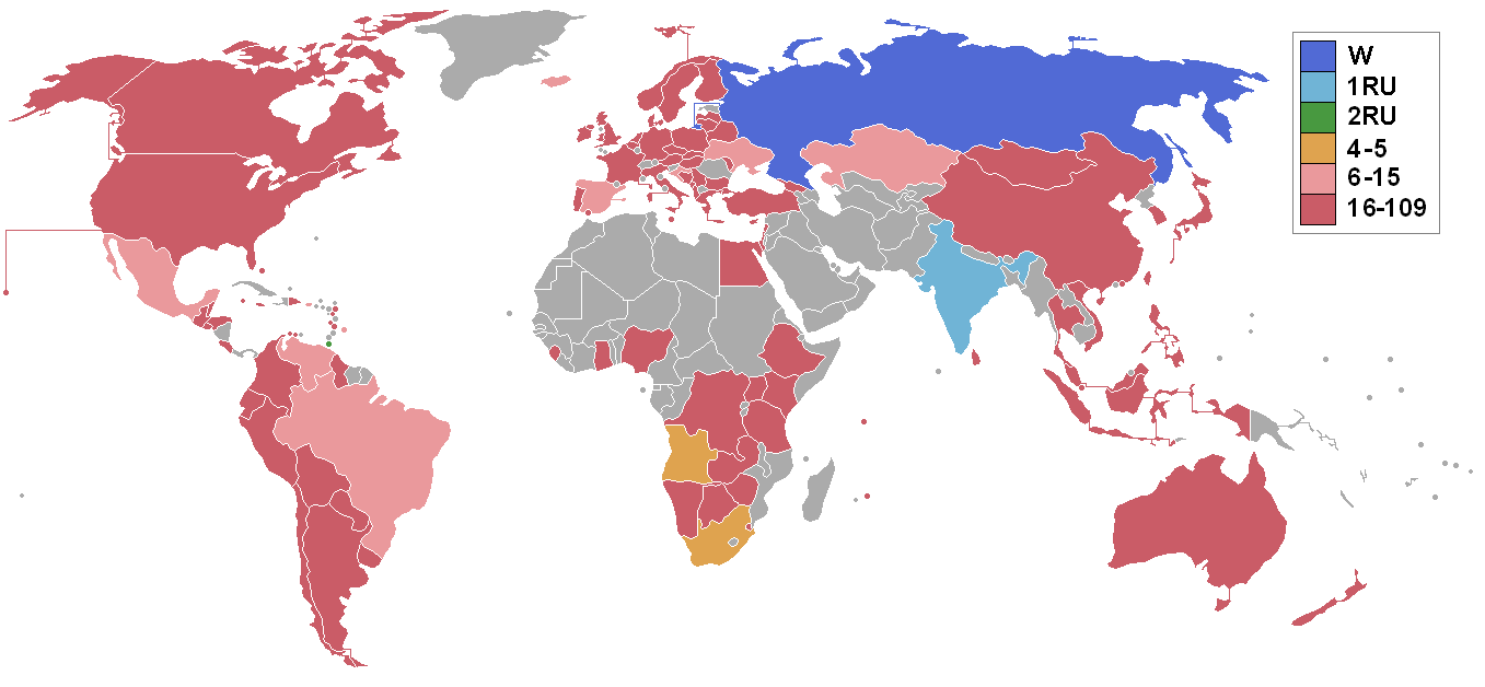 Miss world 2008 map of participating countries and territories